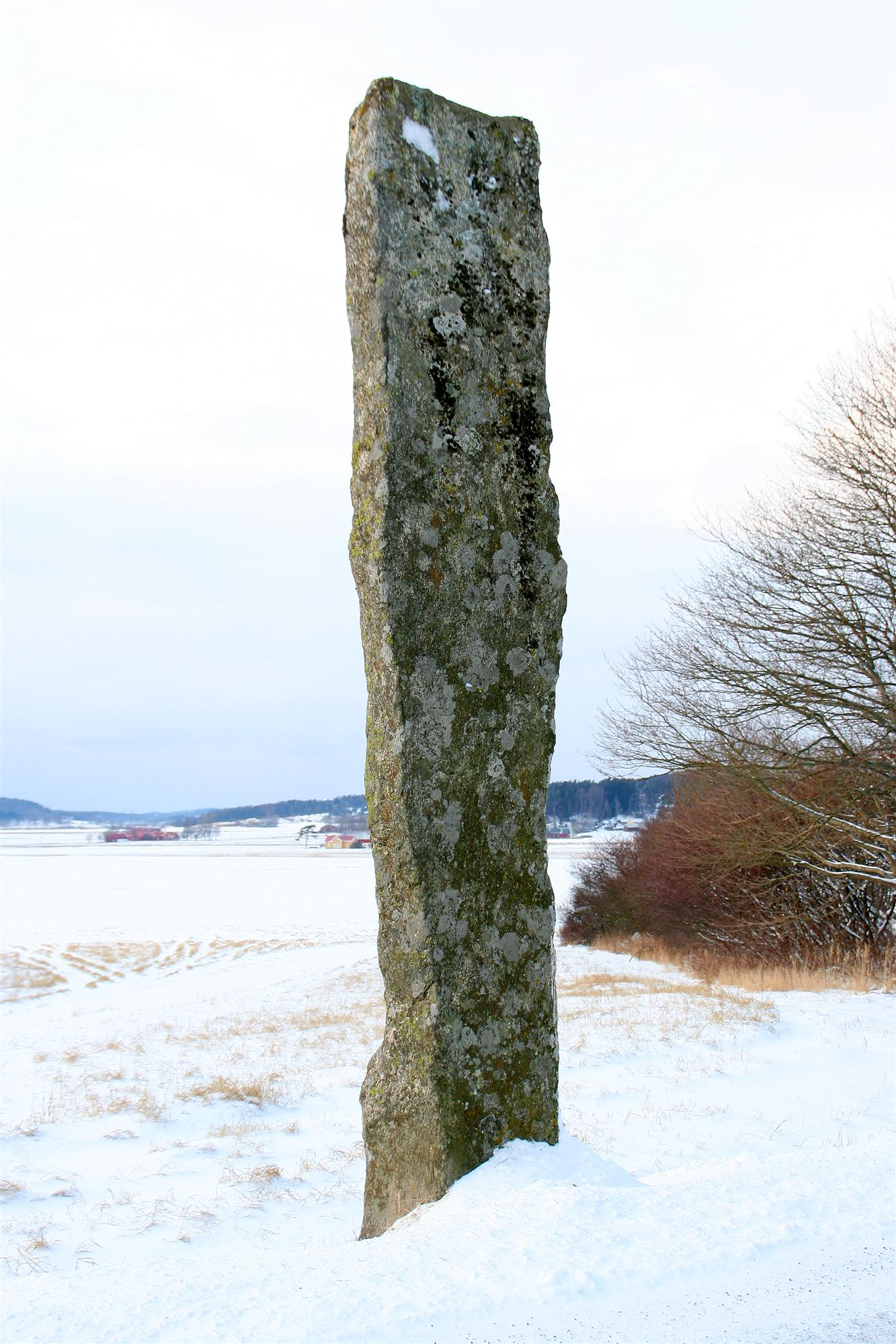 Stadning stone called "the Frode stone", Fjärås bräcka, Kungsbacka municipality, Halland, Sweden.